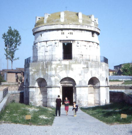 tomb of Theodoric the Great at Ravenna (Italy)